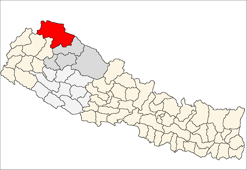 FrenchCarte de localisation dudistrict de Humla(wp-FR),au Népal (wp-FR).EnglishLocation map ofHumla District(wp-EN),in Nepal (wp-EN).